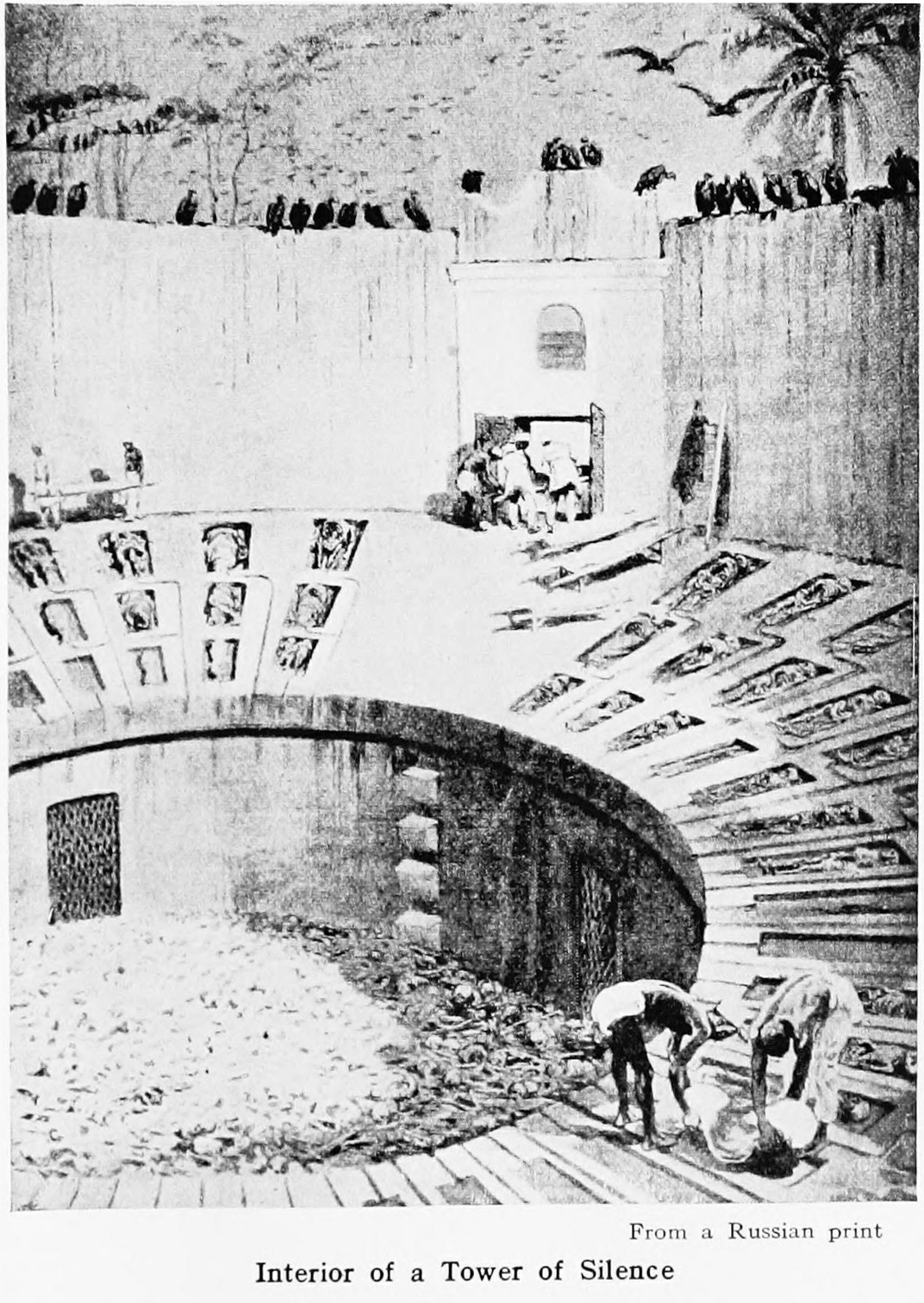 Interior of a tower of silence, Parsi burial